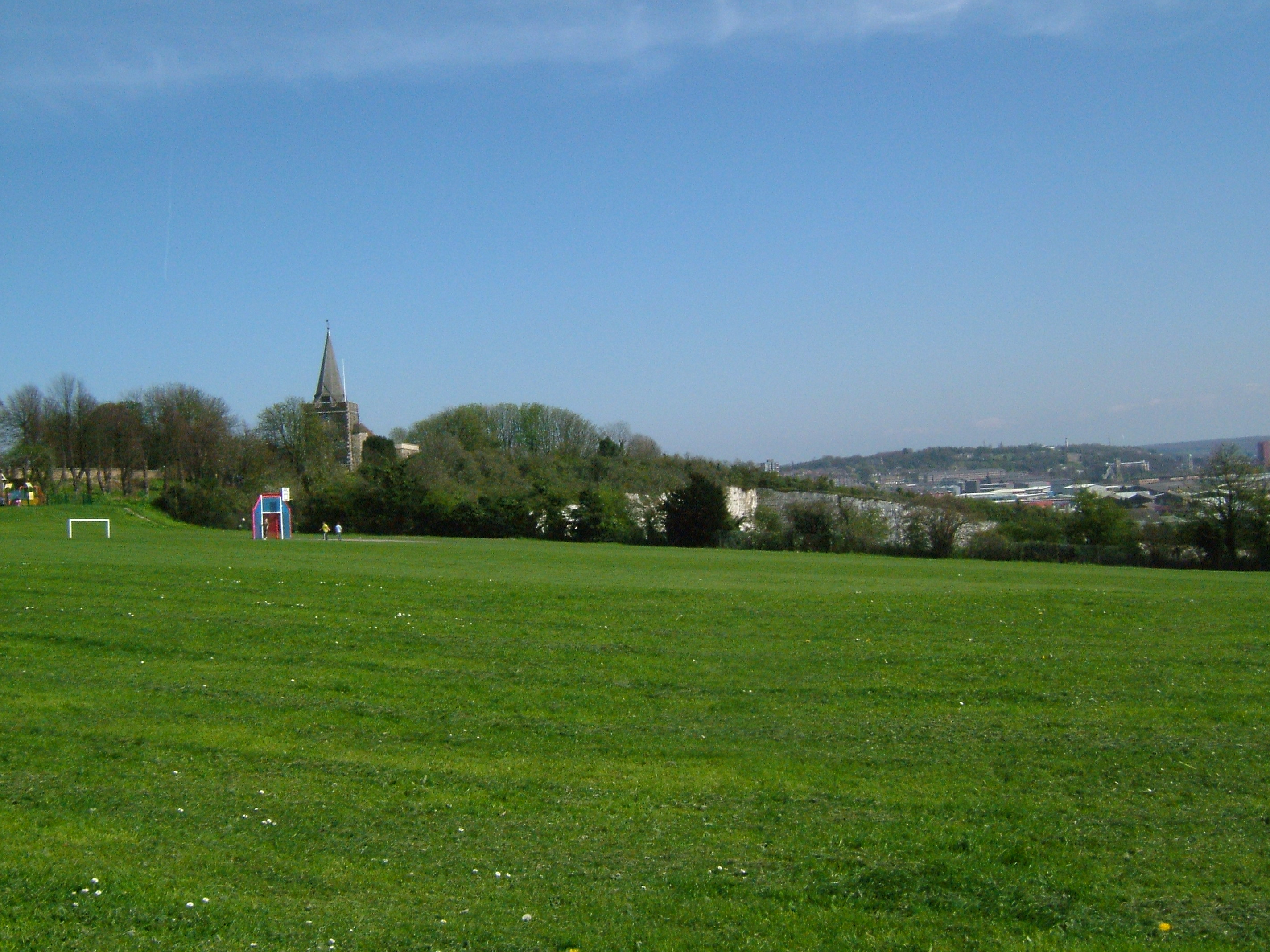 Church Green Frindsbury, showing church, cliffs and vista of Chatham.